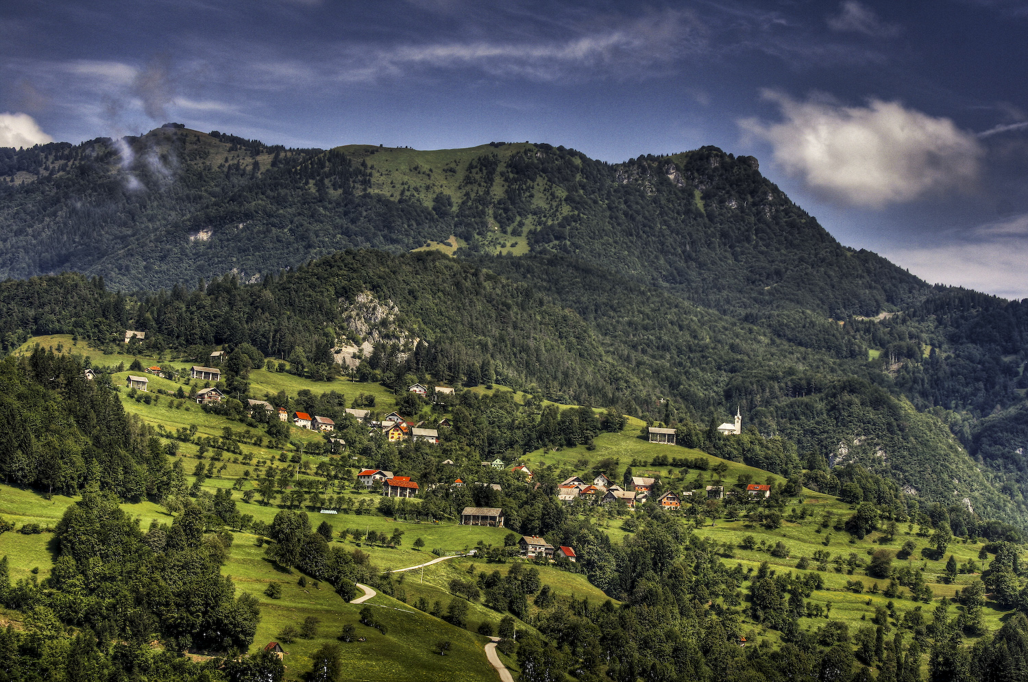 Labinje village near Cerkno